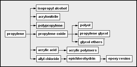 A diagram of the chemicals produces from propylene.